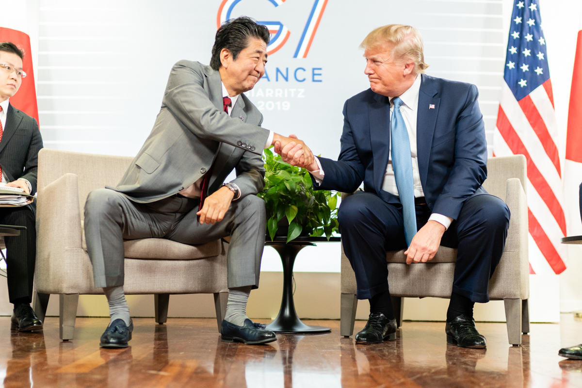 President Donald J. Trump and Prime Minister of Japan Shinzo Abe, joined by their delegation members, participate in a bilateral meeting at the Centre de Congrés Bellevue Sunday, Aug. 25, 2019, in Biarritz, France, site of the G7 Summit. (Official White House Photo by Shealah Craighead)